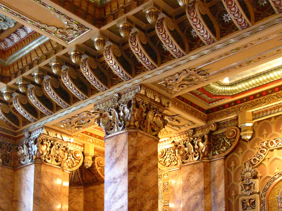 Pillars in the Ford Center for Performing Arts (Oriental Theater)